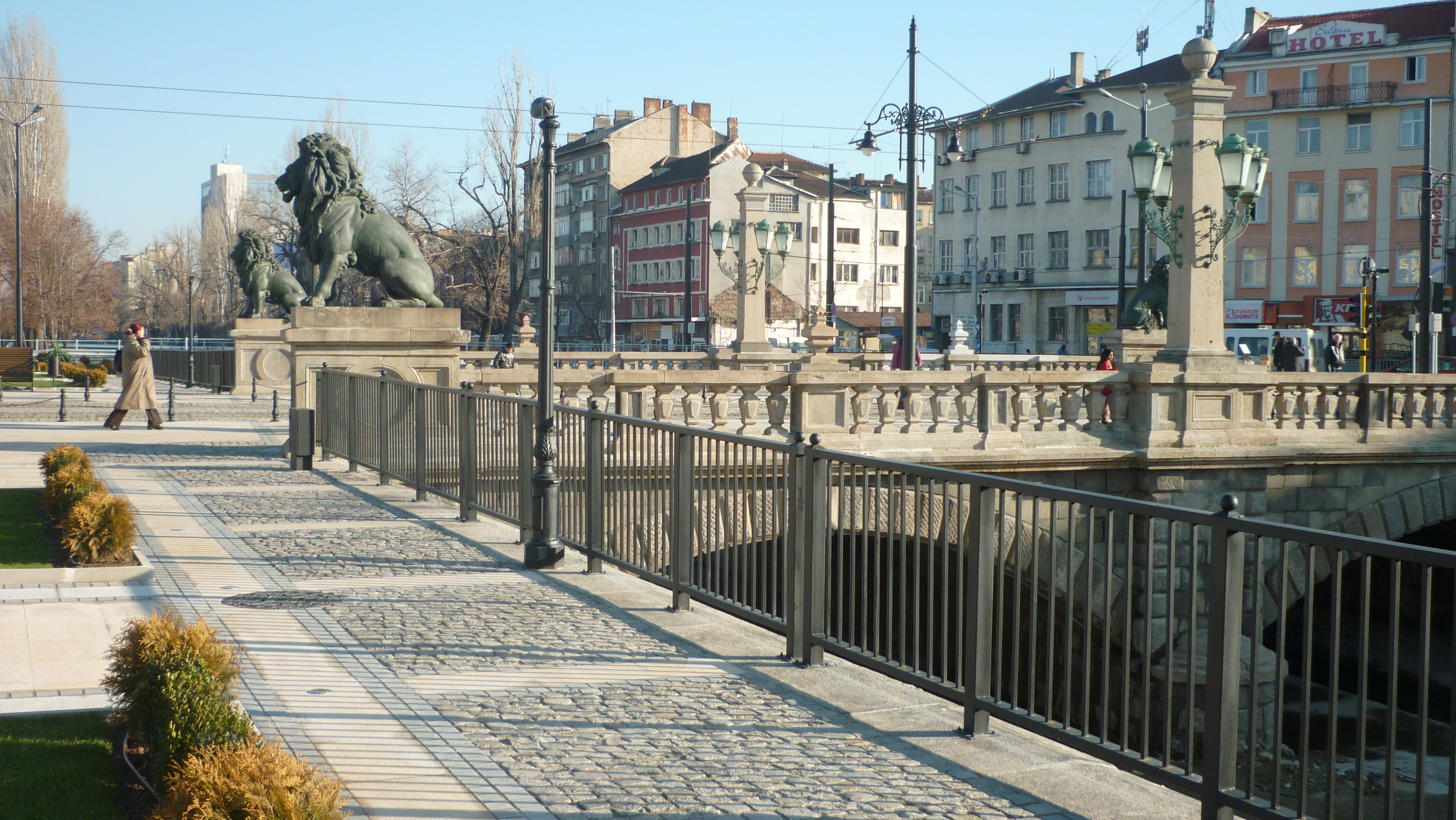 View of Lavov most, Sofia